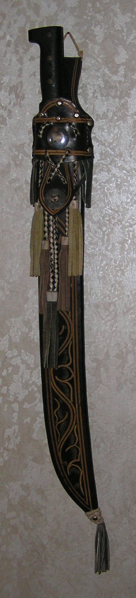 Guatemalan machete in a decorated scabbard. Photo by Y. Trottier, 2005.